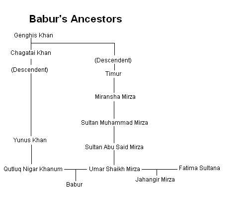 Vais Khan Father Younus Khan.